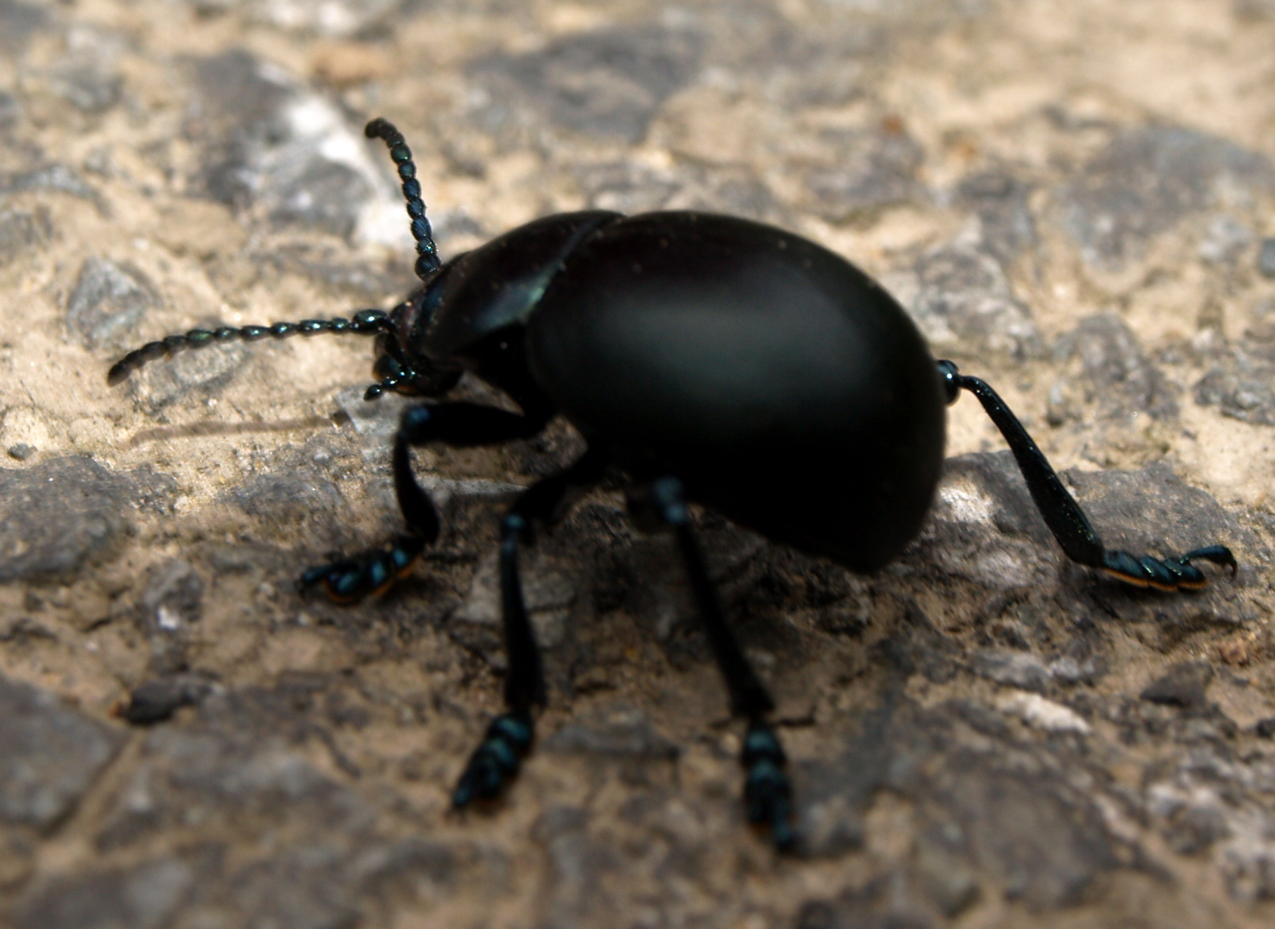 A scarab